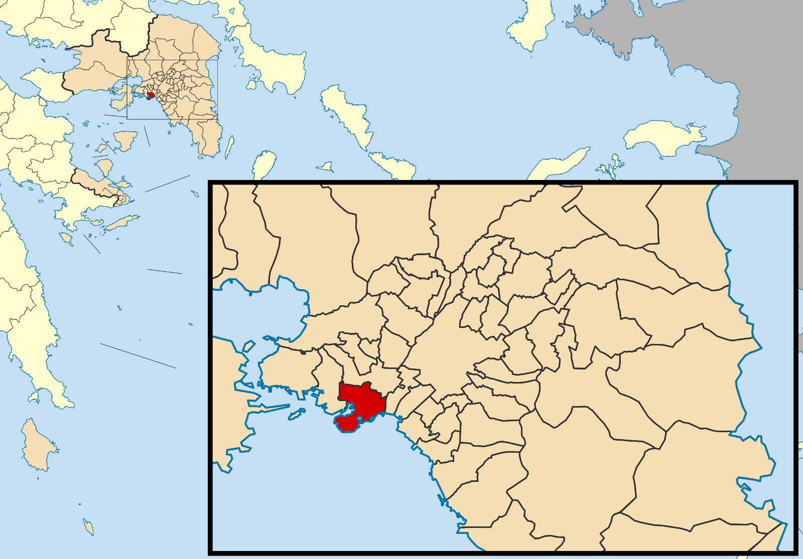 Locator map for Piraeus municipality in Greek region Attica (2011) BALLS!!